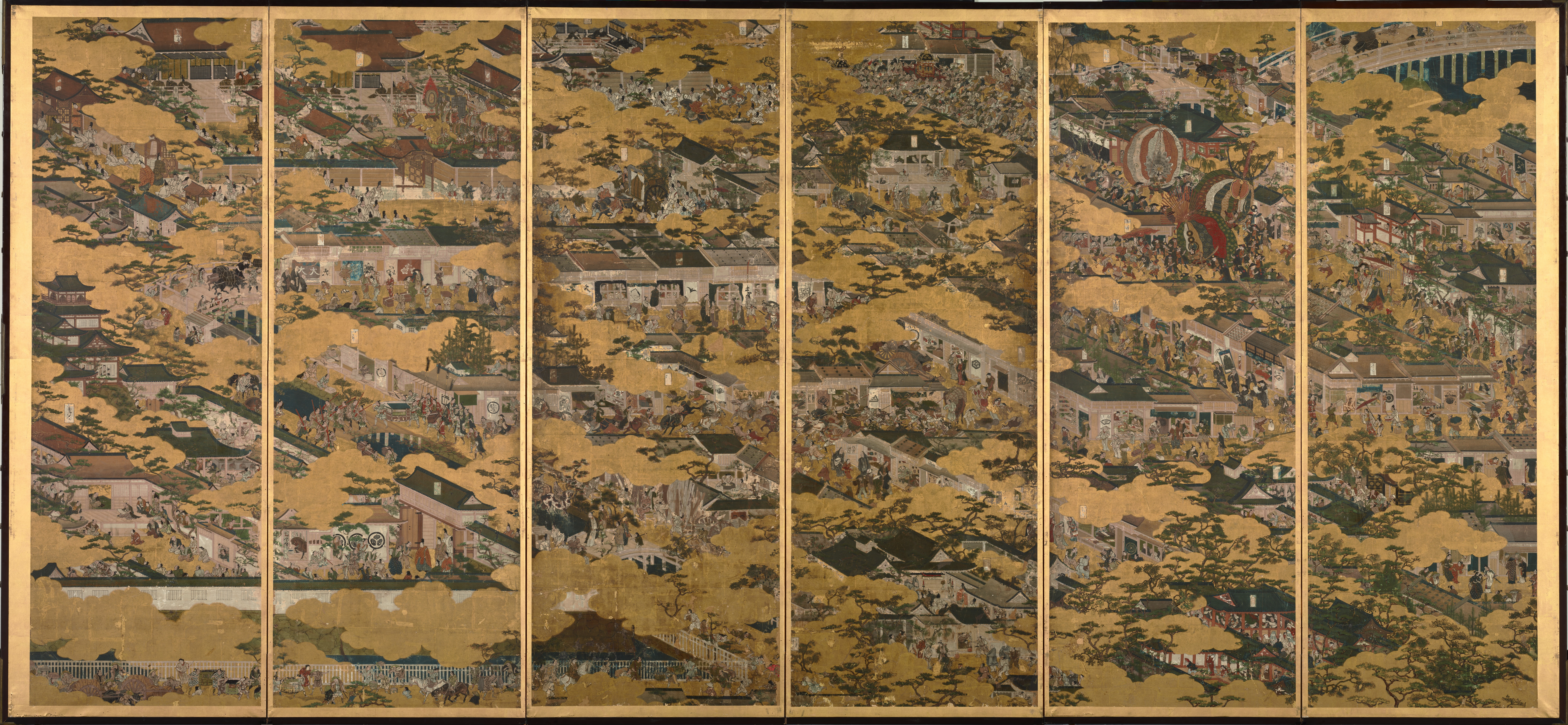 One of a pair of six-section folding screens (byōbu).